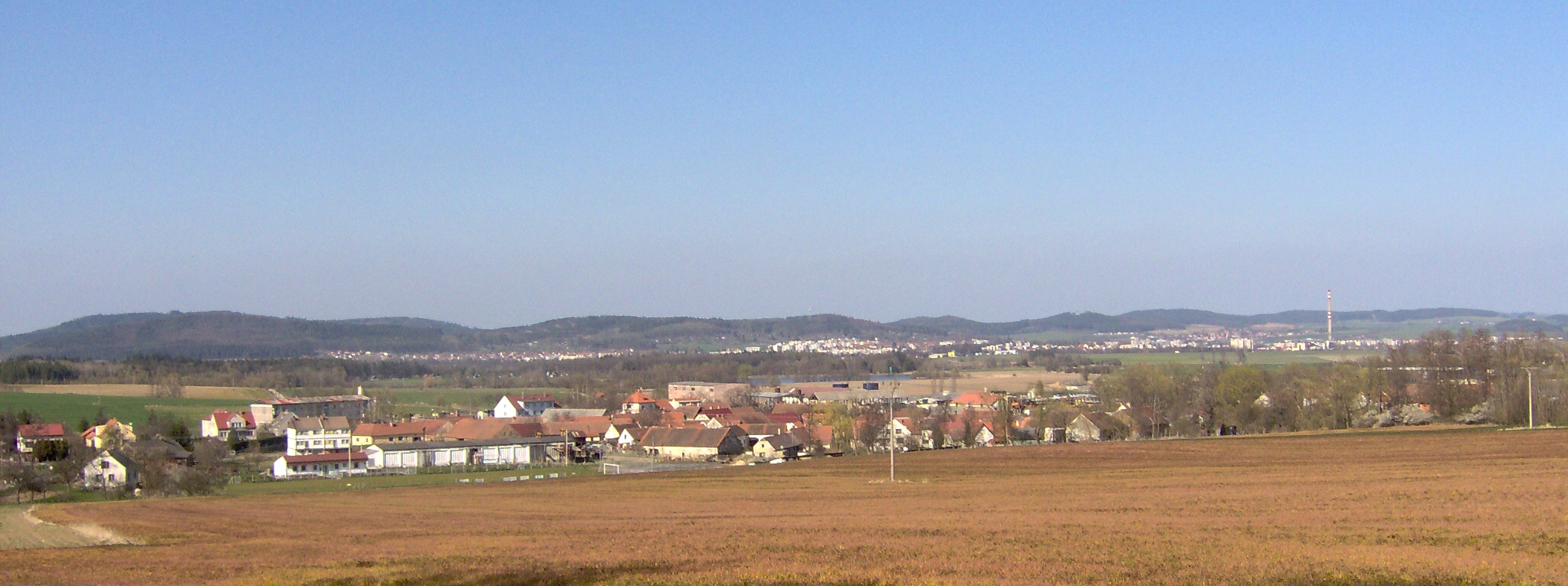 A view of Sousedovice, Strakonice District, Czech republic